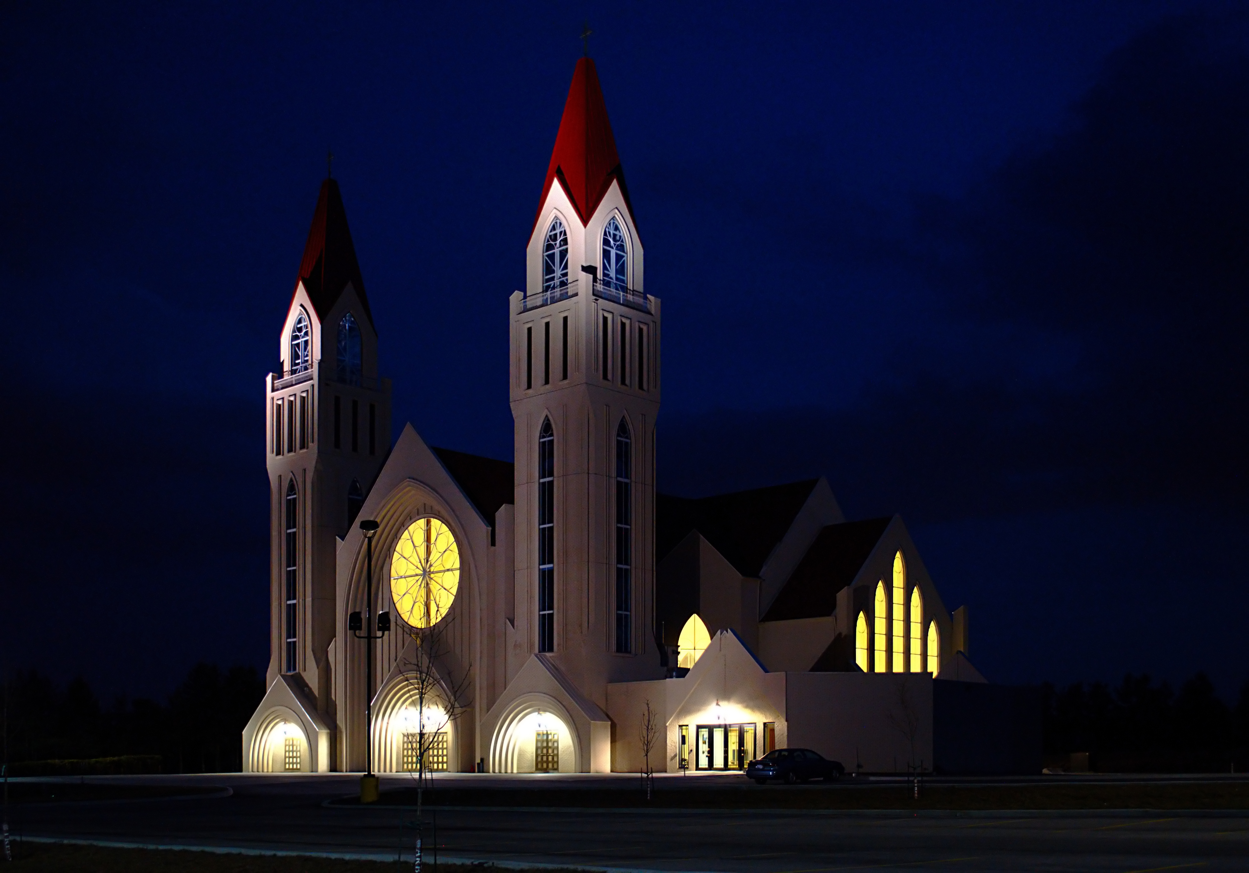 Our Lady Queen of Peace Church (Croatian Franciscan Centre), Norval, Halton, Ontario, Canada.